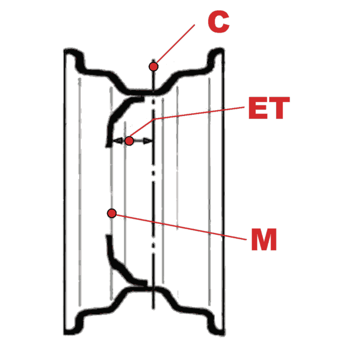 ET-value of automotive wheel (derived from German word "Einpresstiefe"): M: Mounting plane; C: Center line of rim.